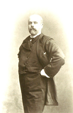 French economist Léon Walras (1813-1910)